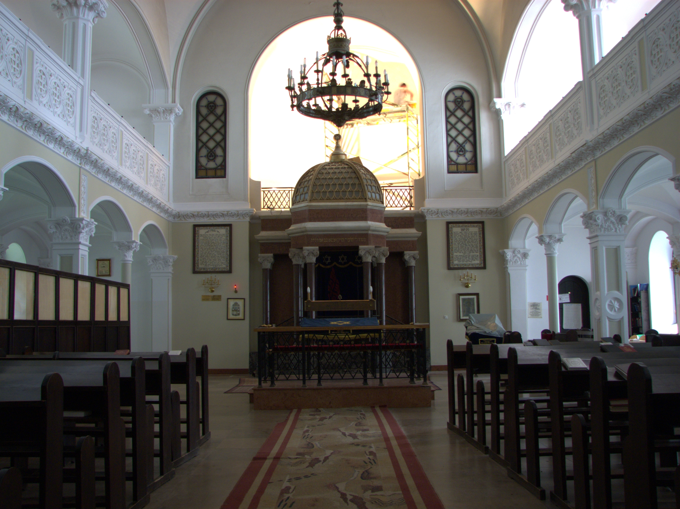 Interior of Nożyk Synagogue in Warsaw